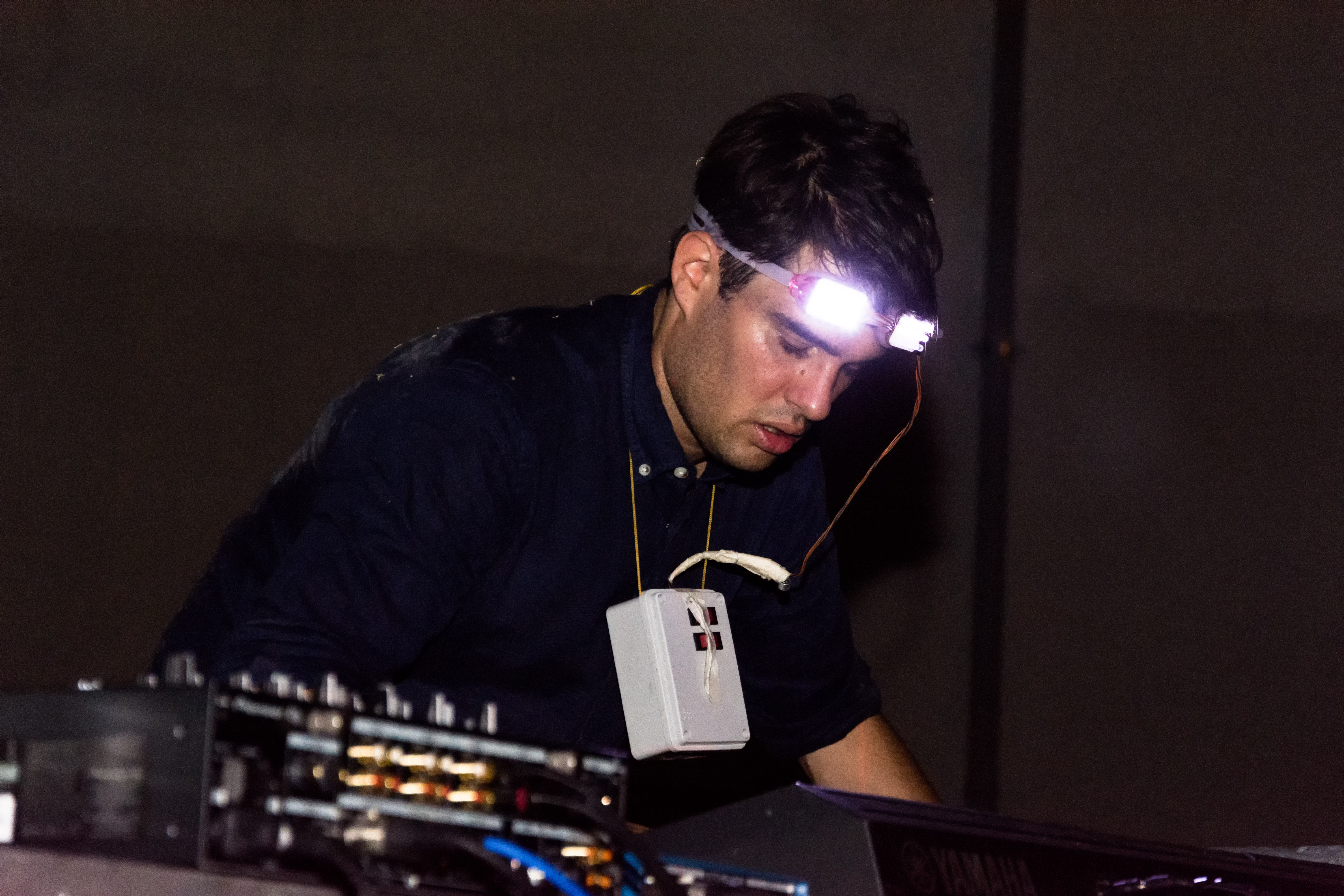 Davide Panizza during a Pop_X concert on July 2017